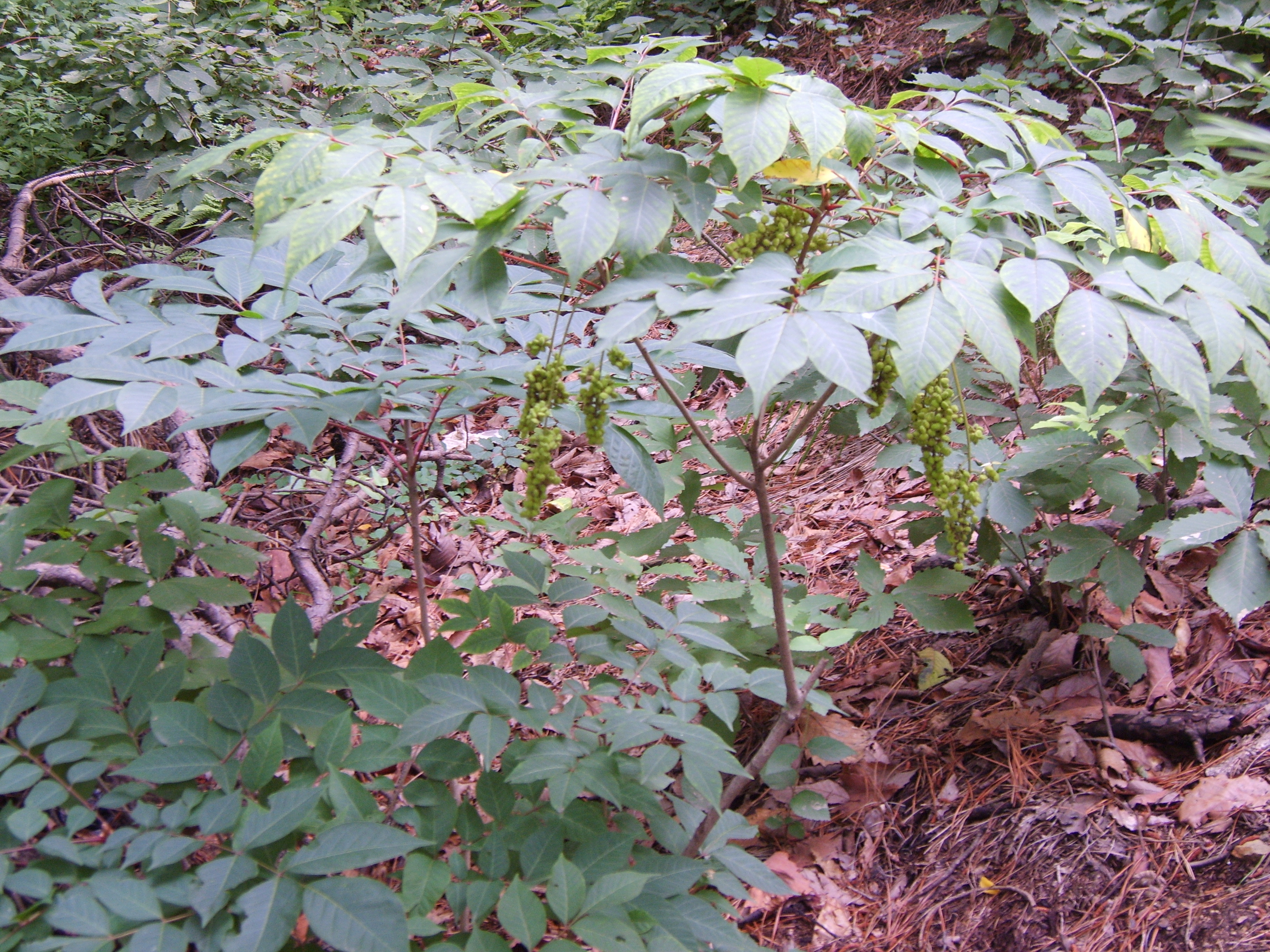 Rhus trichocarpa in Bupyung, Korea